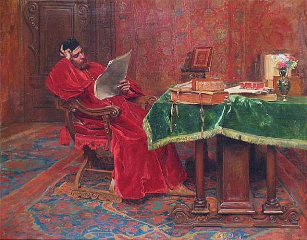 Le Philosophe (The Philosopher"), by Jean-Louis-Ernest Meissonier, oil on canvas